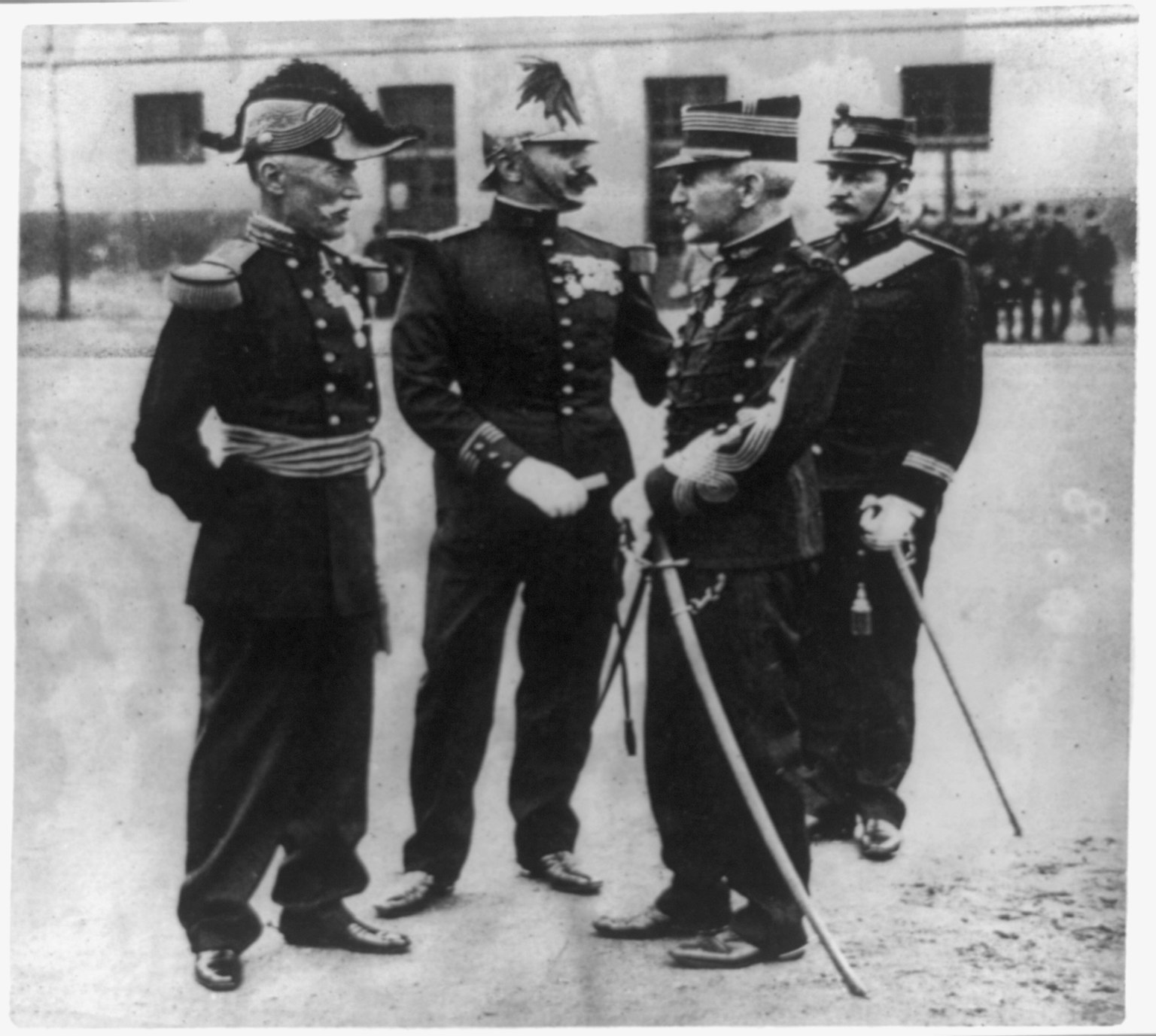 Title: Capt. Alfred Dreyfus, full-length portrait, standing, facing left, with three other French military officers, all in uniform Abstract/medium: 1 photographic print.